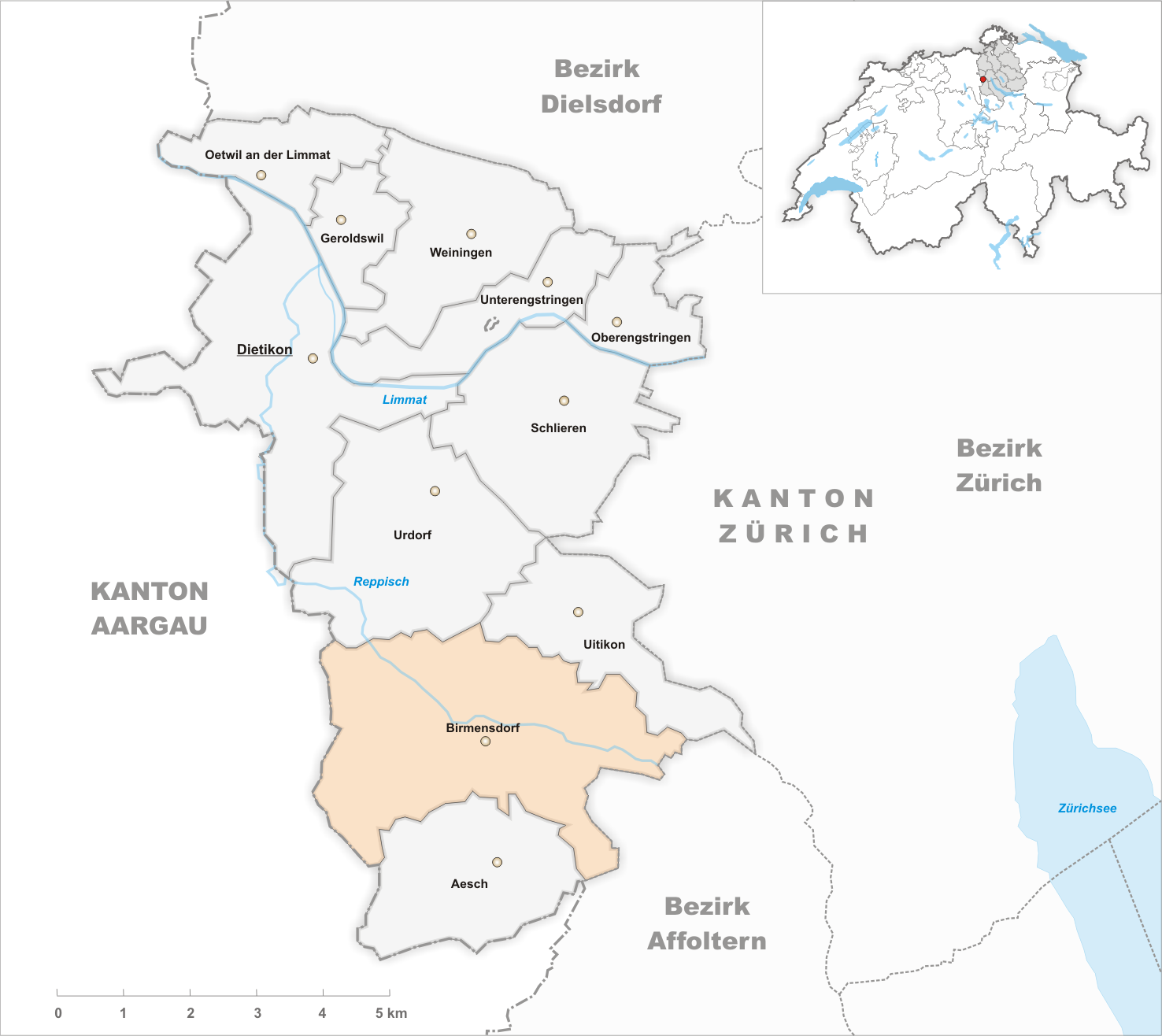 Municipality Birmensdorf